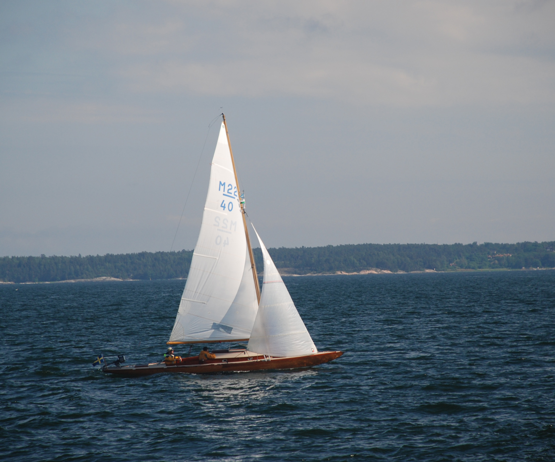 S/Y Galant, a Mälar 22, from the Mälar series of Sweden, built 1933, near Utö island.